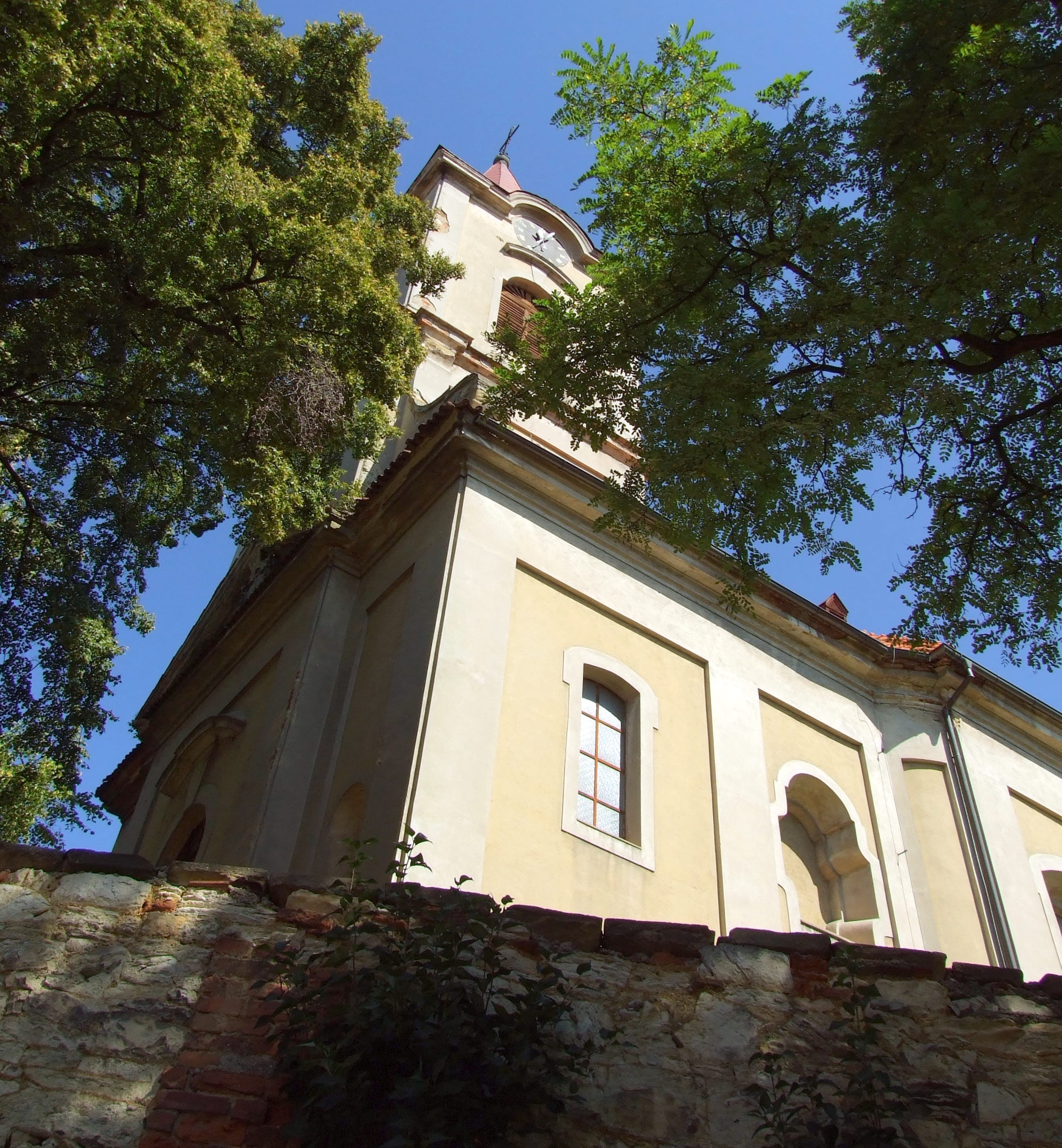 Church in the town of Mšec. Mšec is located in Rakovník district, Central Bohemian region, CZ This photograph was taken within the scope of the 'Czech Municipalities Photographs' grant.